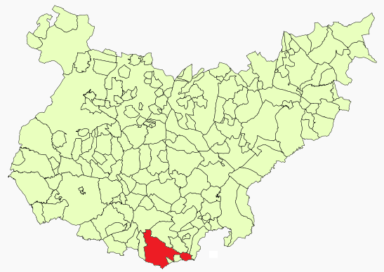 Monesterio